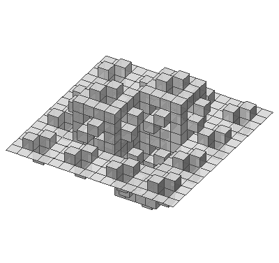 Second iteration of 3D Koch type 2 quadratic fractal